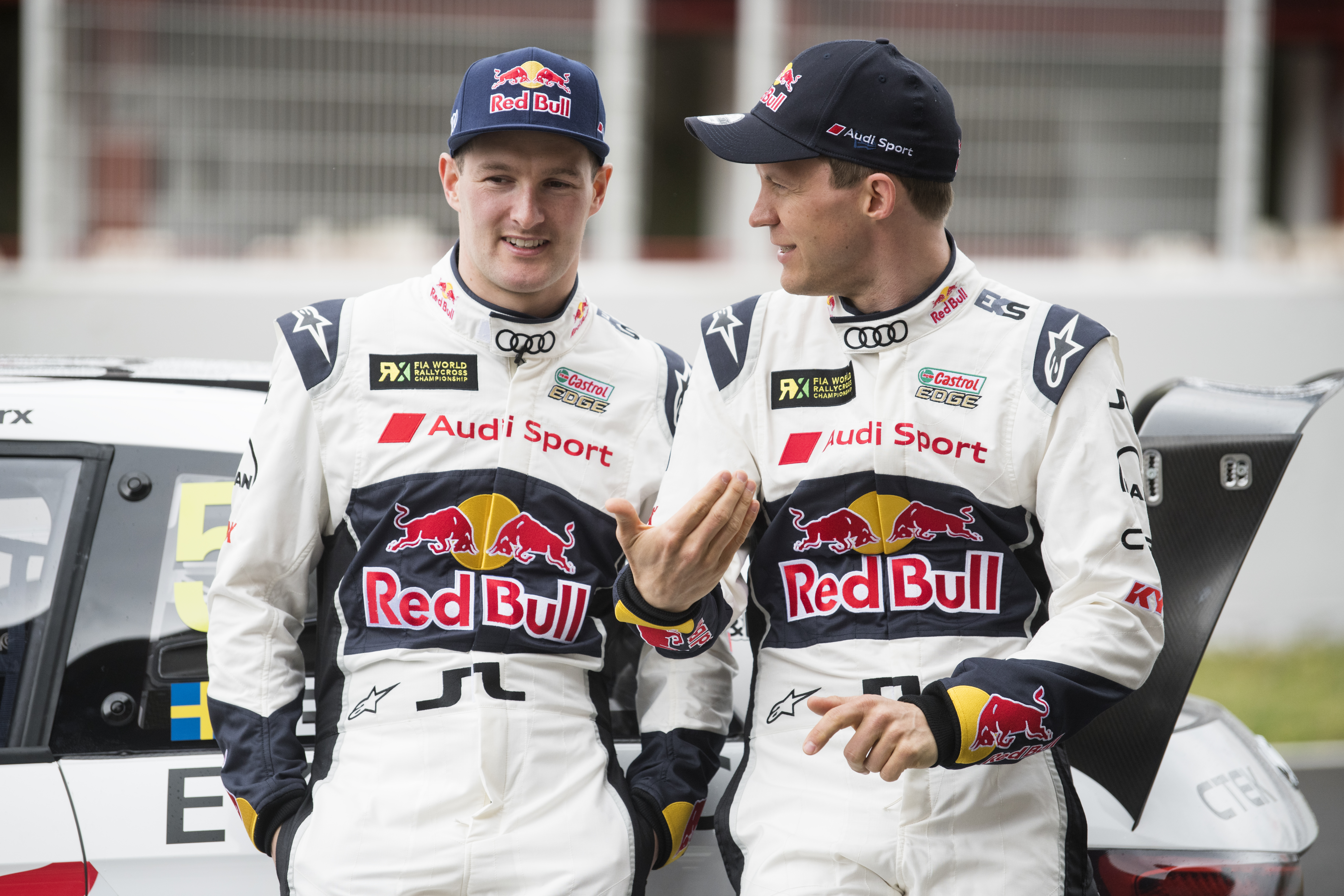 2018 FIA World Rallycross Championship // Round 1, Barcelona // Credit: EKS Audi Sport